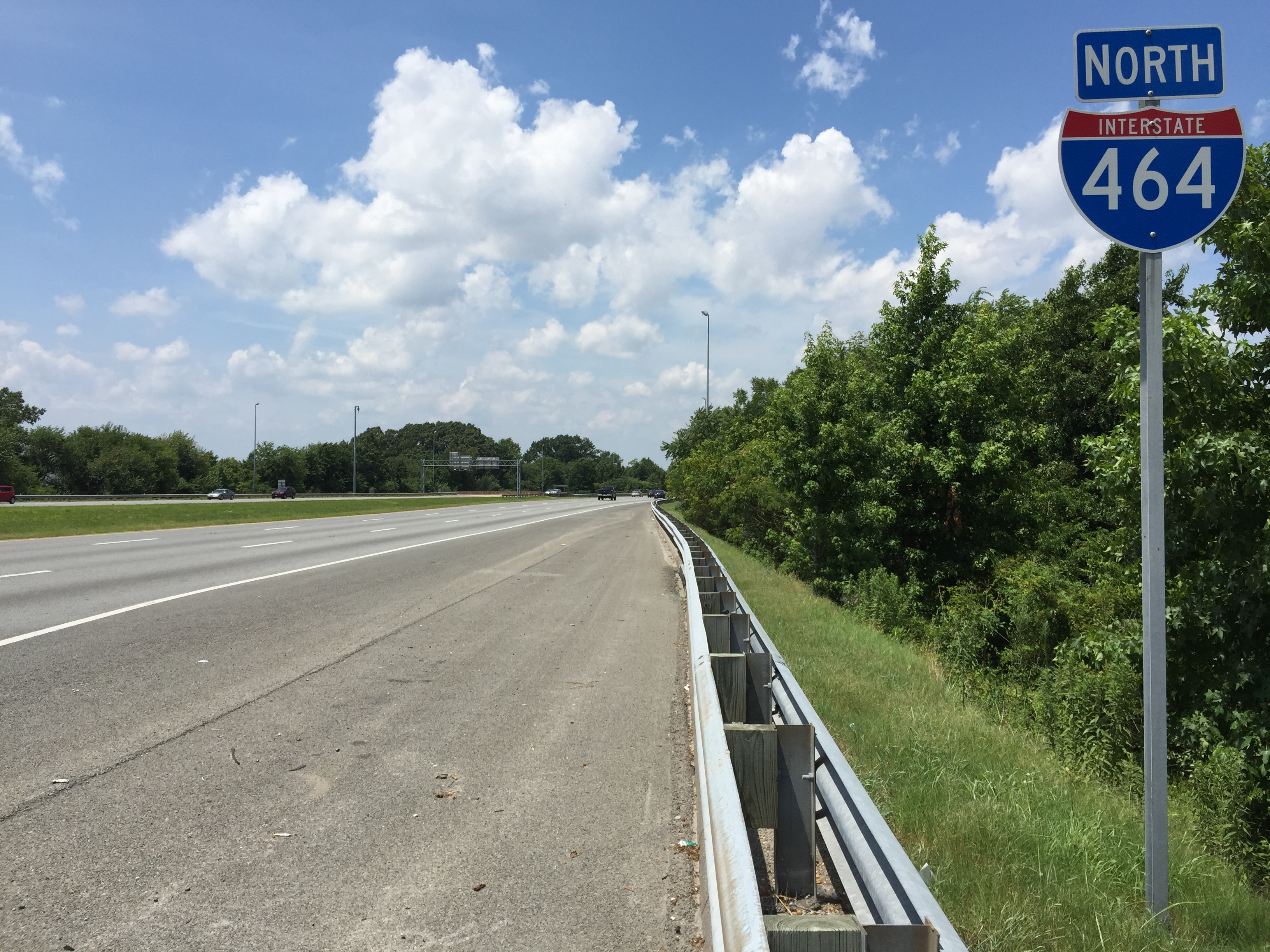 View north along Interstate 464 between Exit 2 (U.S. Route 13/Military Highway) and Exit 3 (Freeman Avenue, To U.S. Route 460 and Virginia State Route 166) in Chesapeake, Virginia